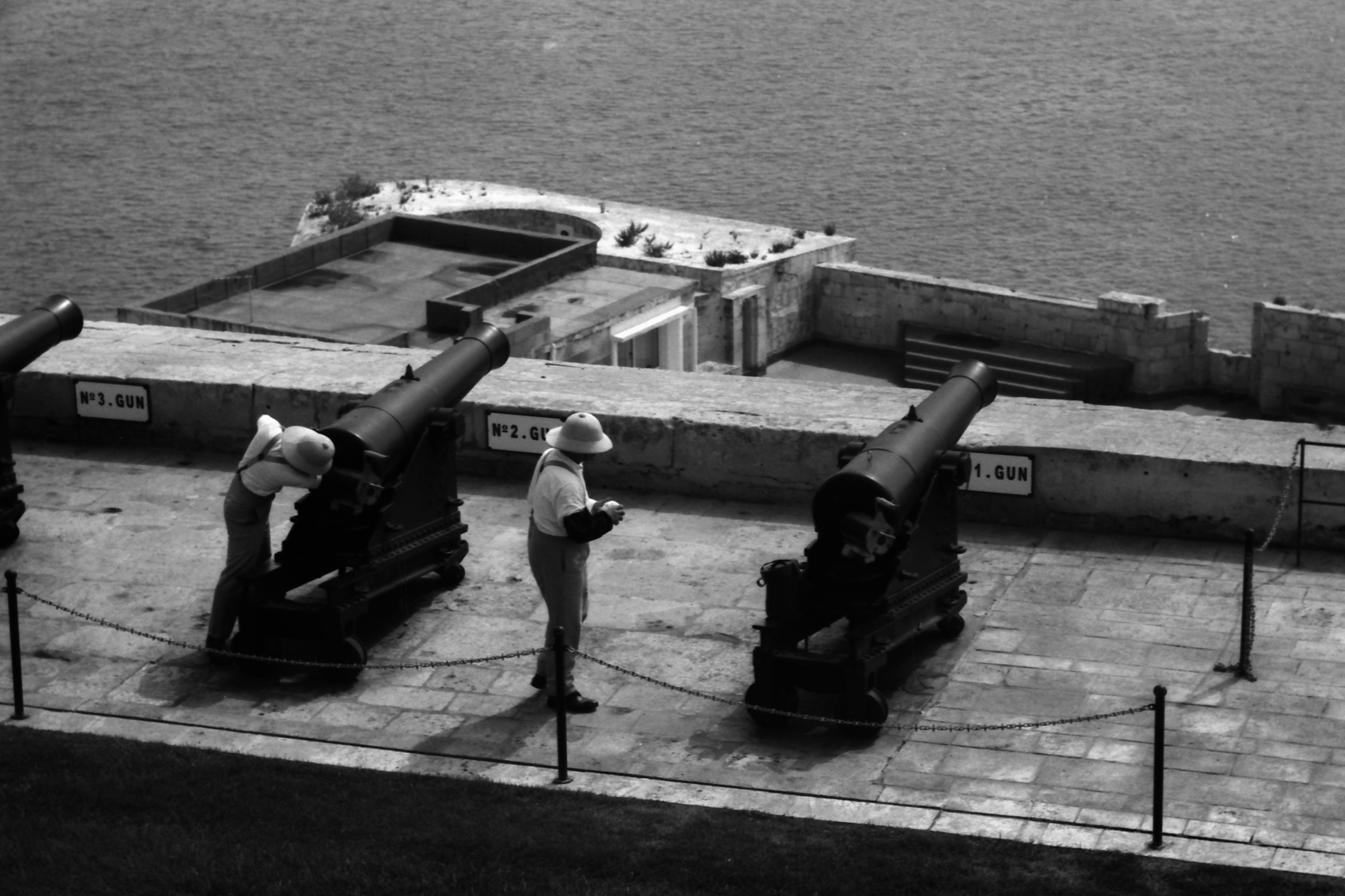 Troops at the saluting battery in Valletta (scan from negative, Ilford Delta 100, Leica IIIc, Elmar 9cm f/4).